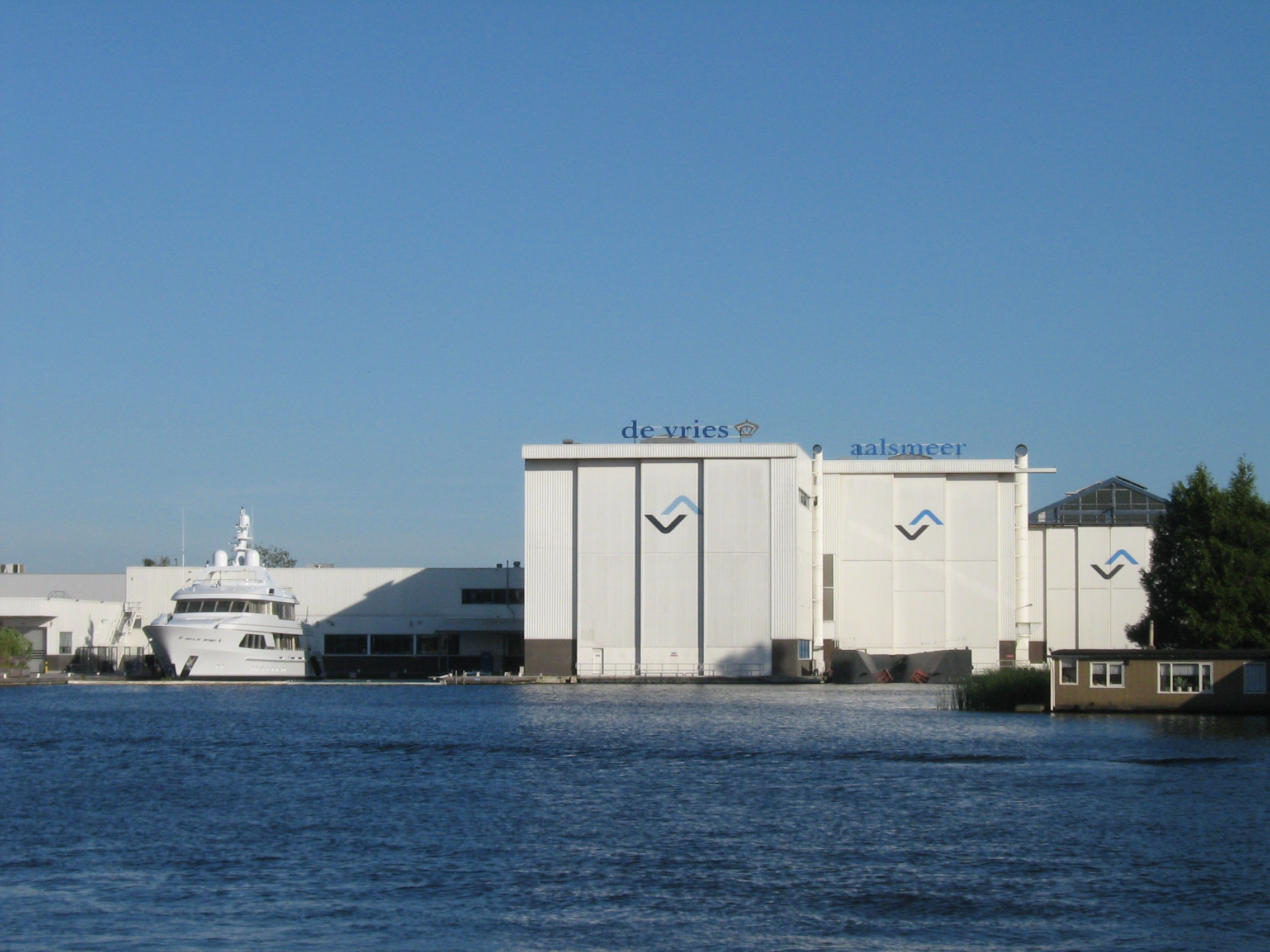 Site of Koninklijke De Vries Scheepsbouw (Royal De Vries), a shipbuilder in Aalsmeer, the Netherlands and part of the Feadship consortium. The water in the front is the Ringvaart.